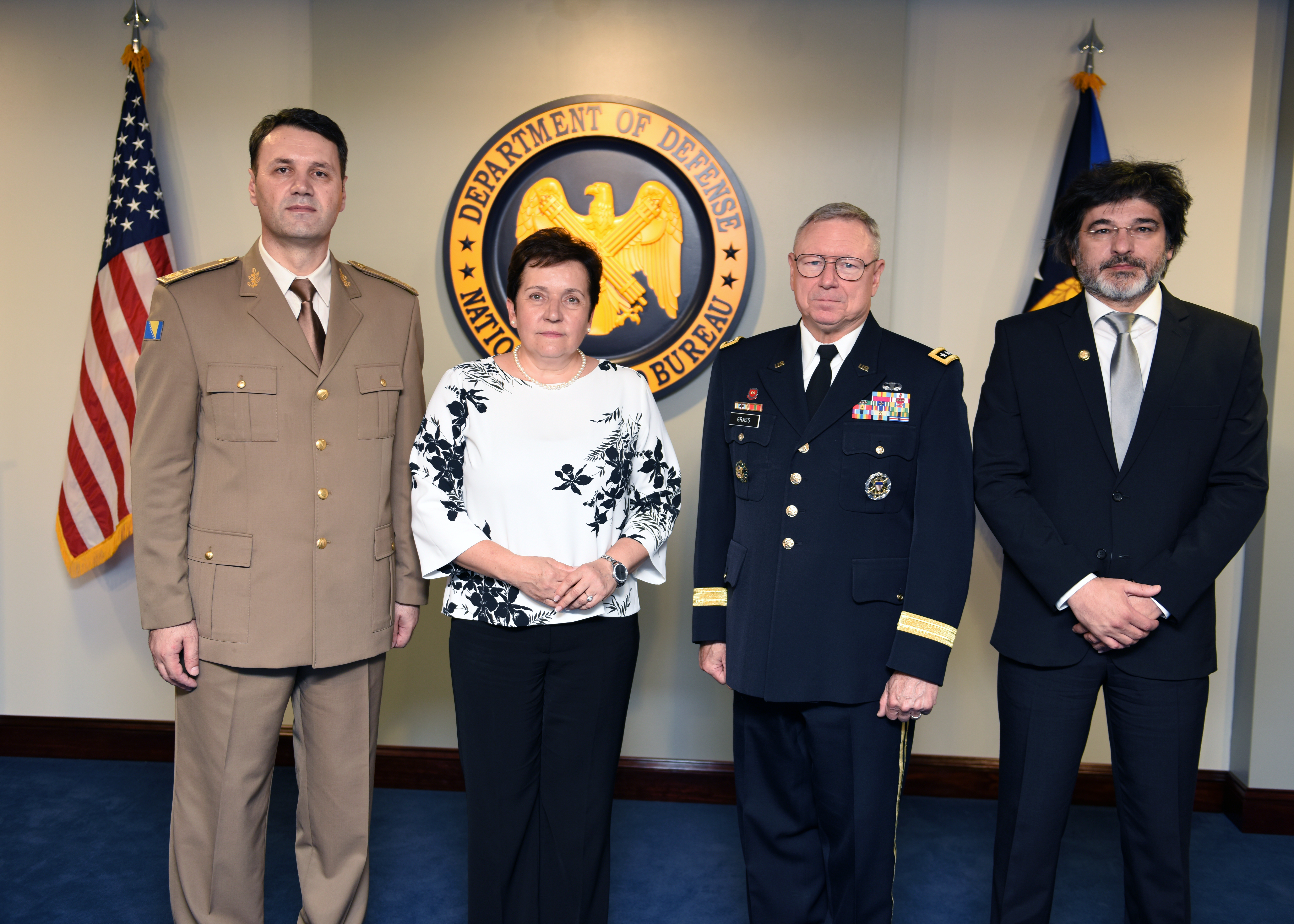 Army Gen. Frank Grass, chief, National Guard Bureau, third from left, hosts Maj. Gen. Senad Masovic, left, Bosnia and Herzegovina's deputy chief of defense; Marina Pendes, second from left, Bosnia and Herzegovina's defense minister; and Bosnia and Herzegovina Ambassador to the United States Haris Hrle, right, Minuteman Hall, the Pentagon, Washington, D.C., June 20, 2016. Bosnia and Herzegovina is partnered with the Maryland National Guard in the National Guard State Partnership Program. (U.S. Army National Guard photo by Sgt. 1st Class Jim Greenhill) (Released)